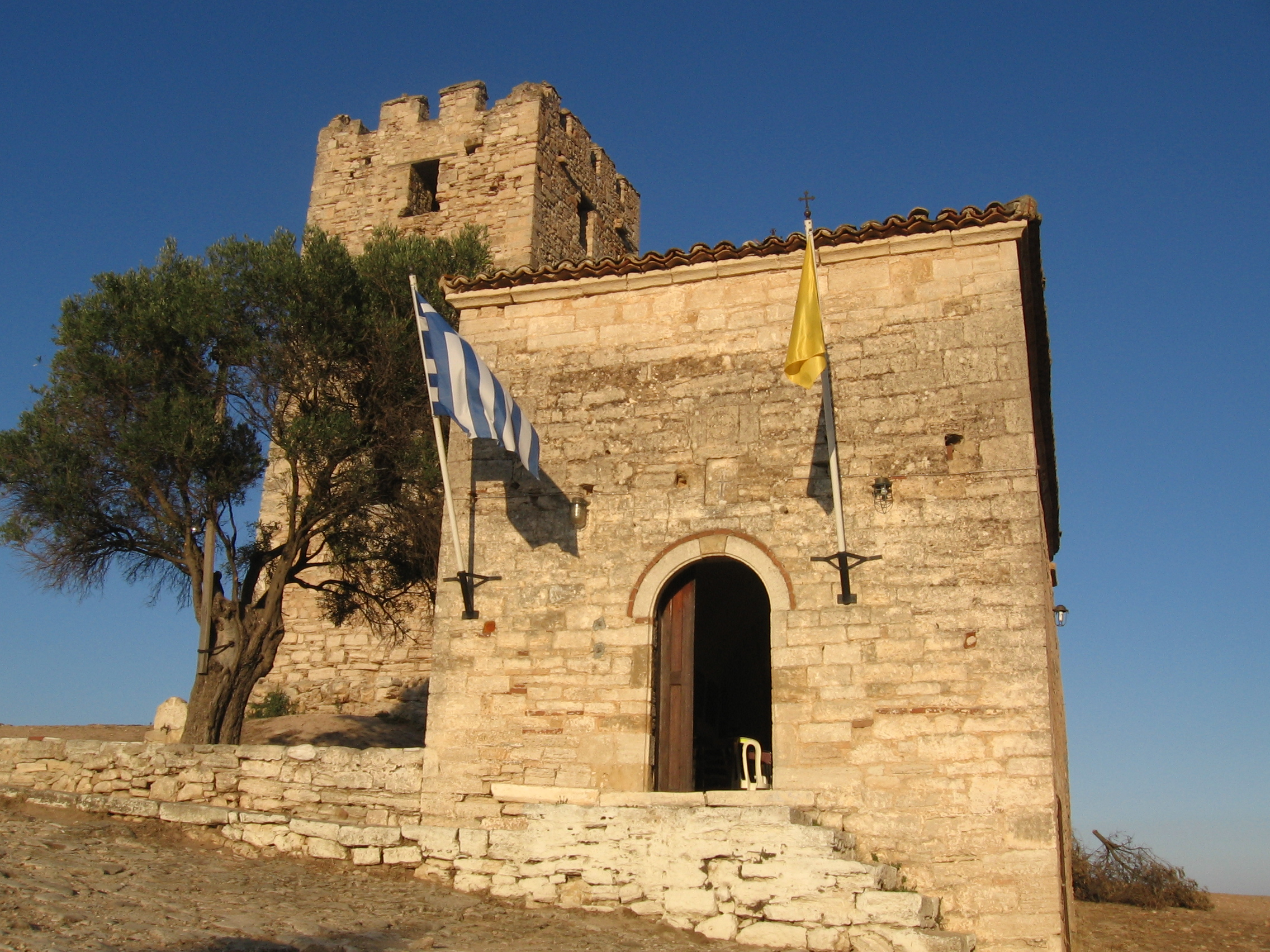 Byzantine tower at Nea Fokea